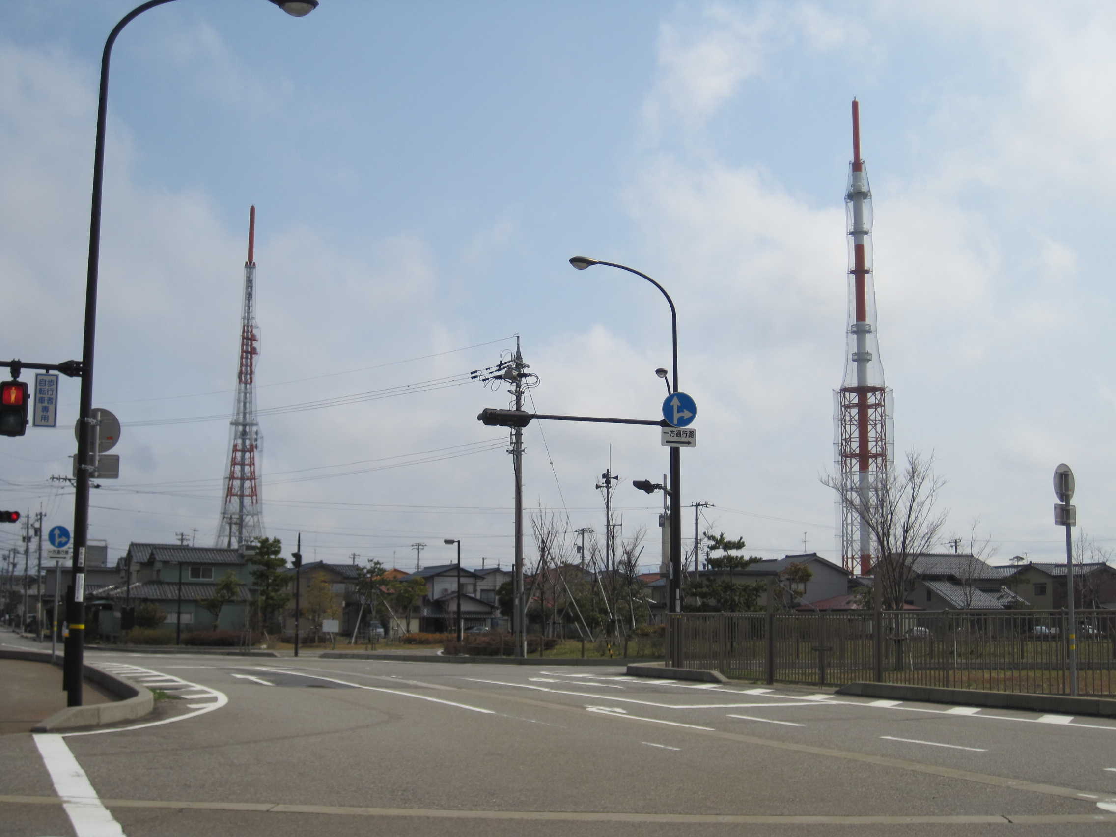 Kannondo TV Tower(Kanazawa city,Ishikawa prefecture)